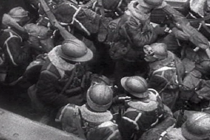 French troops in a British lifeboat at Dunkirk (France, 1940). Screenhot taken from the 1943 United States Army propaganda film Divide and Conquer (Why We Fight #3) directed by Frank Capra and partially based on, news archives, animations, restaged scenes and captured propaganda material from both sides.